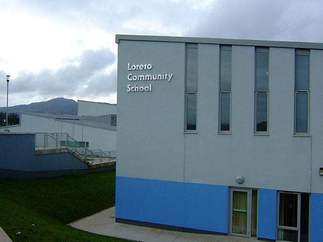 Loreto Community School In 1966 nuns of the Institute of the Blessed Virgin Mary, also called the Loreto Order, opened a Secondary School in Milford with an enrolment of 41 pupils, all girls. However, with the advent of free education in 1967, Loreto College became the first co-educational convent school in Ireland. The school status changed from a Secondary School to a Community School in 1996. The new school opened at the beginning of September 2006.